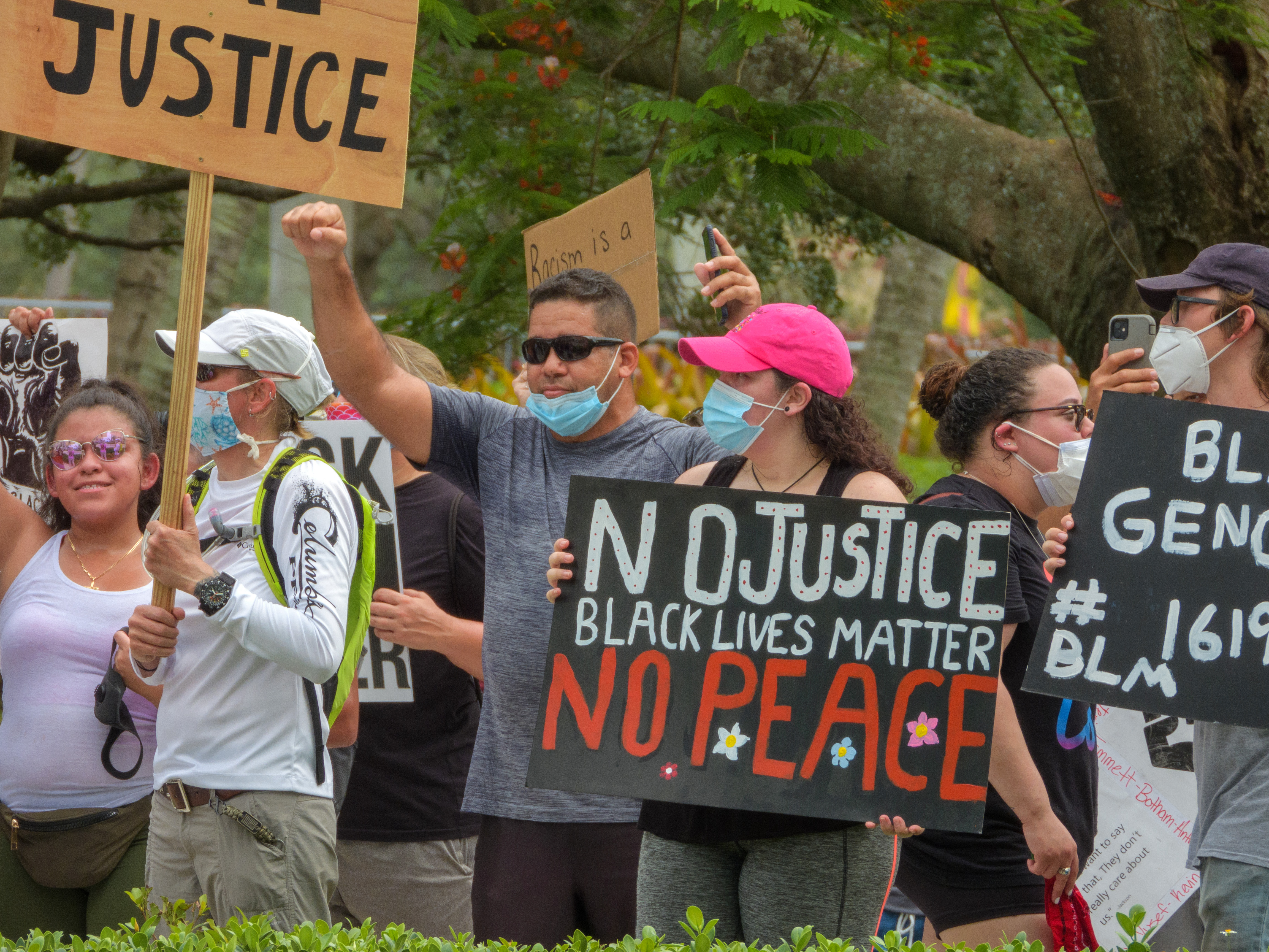 Black Lives Matter Protest Hollywood Florida June 7, 2020